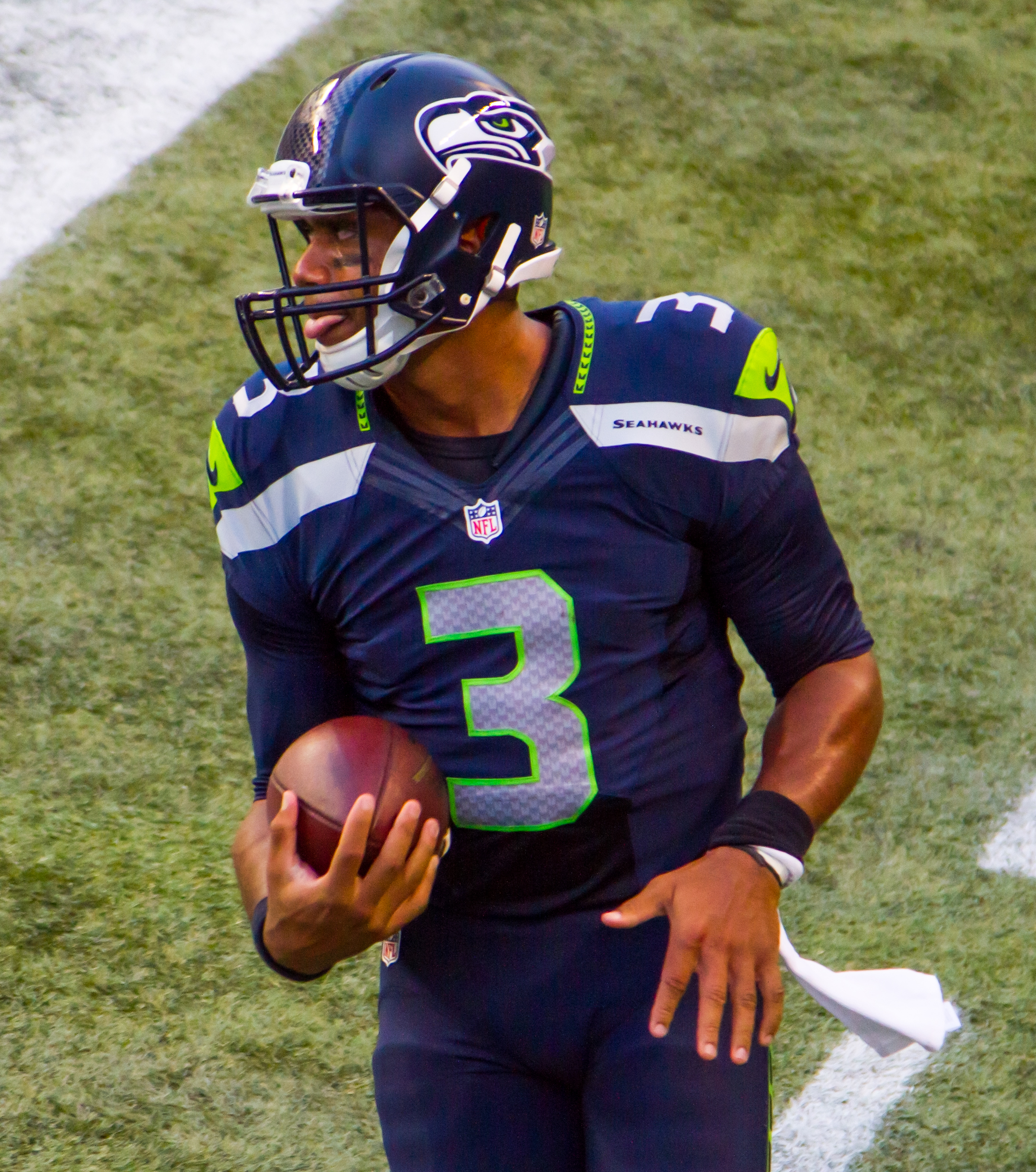 Russell Wilson in 2014 preseason vs. Chicago Bears